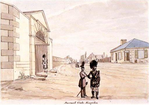 View of entrance to the Tête-de-Pont Barracks (Fort Frontenac), Kingston, Ontario. Artist depicts Ontario Street looking south. Original: Agnes Etherington Art Centre, Kingston, Ontario.